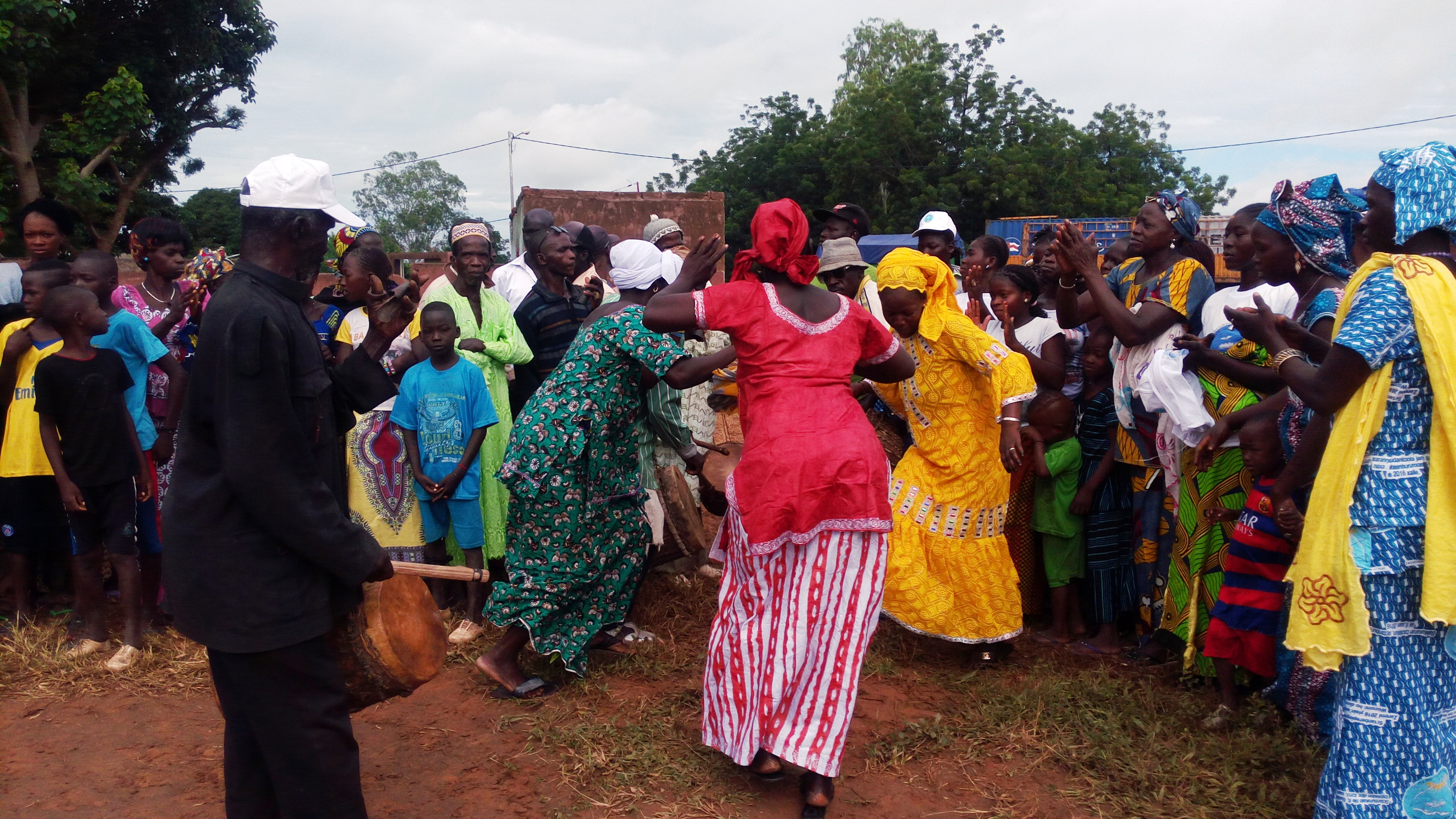 Malian malinké women traditional danse Bamanankan: Mali maninka musow ka dɔnse kɔrɔ This is an image from Mali